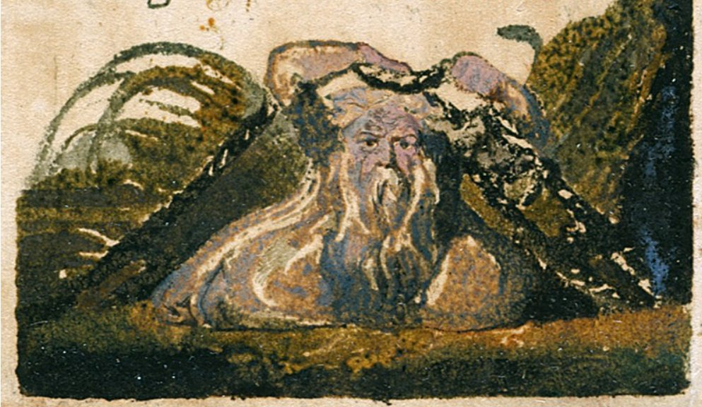 Cropped version of Songs of Innocence and of Experience, copy F, object 47 (Bentley 47, Erdman 47, Keynes 47) "The Human Abstract"